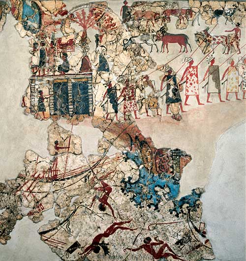 fresco from the so called west house, in the bronze age excavation at Akrotiri on the island of Santorini, Greece. The image shows herds, shepherds, warriers, a well and a shipwreck scene